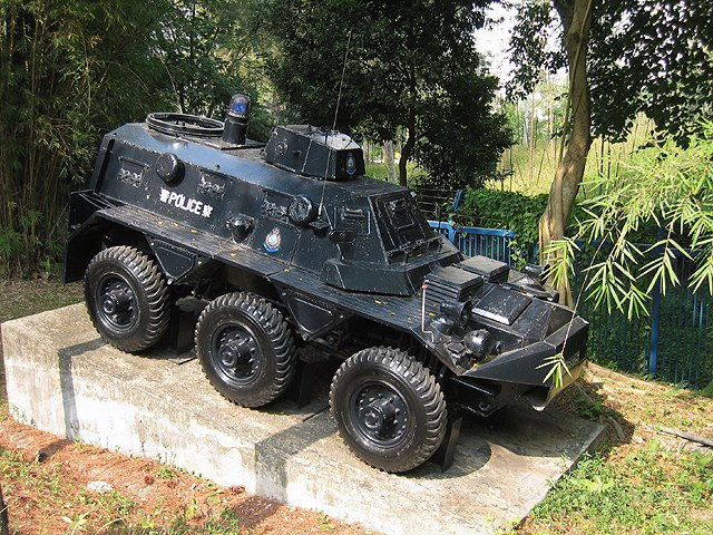 Alvis Saracen APC used by Hong Kong Police in 1970's to 1980's.